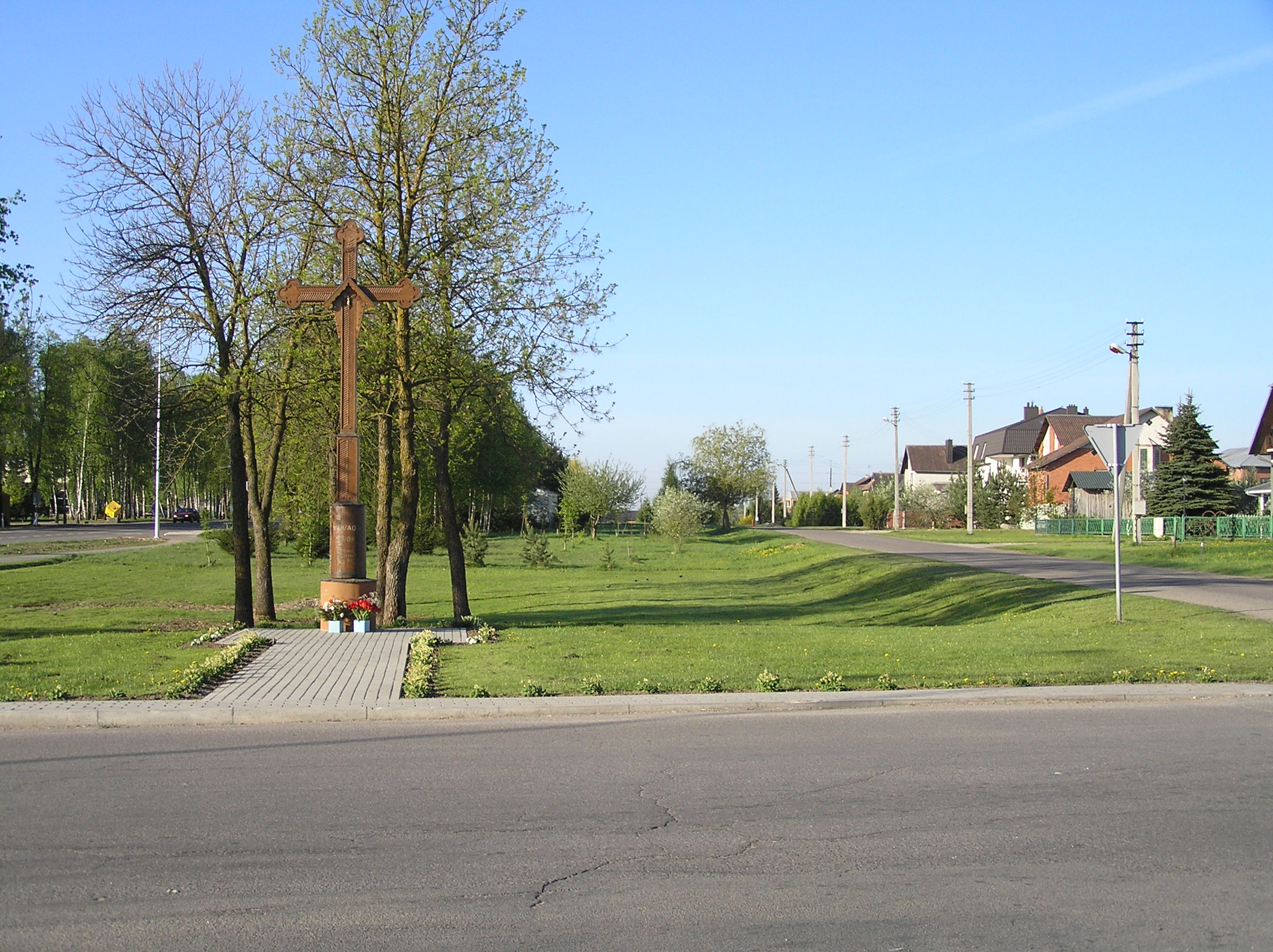 Vaivadai, Lithuania